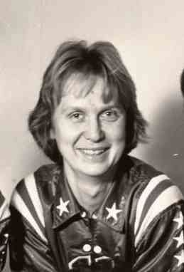 Crop of Photo taken at 1965 AAU Championship, where Nera White was the MVP